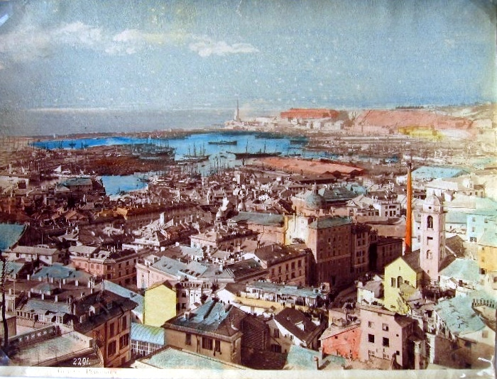 Alfred Noack (1833-1895) - "Nervi - View" (hand-colorised version). Catalogue # 2291.